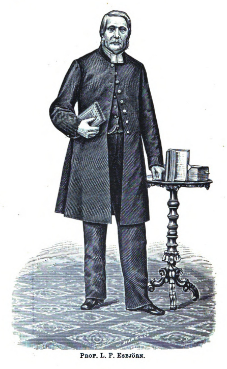 Woodcut of the Reverend Lars Paul Esbjörn